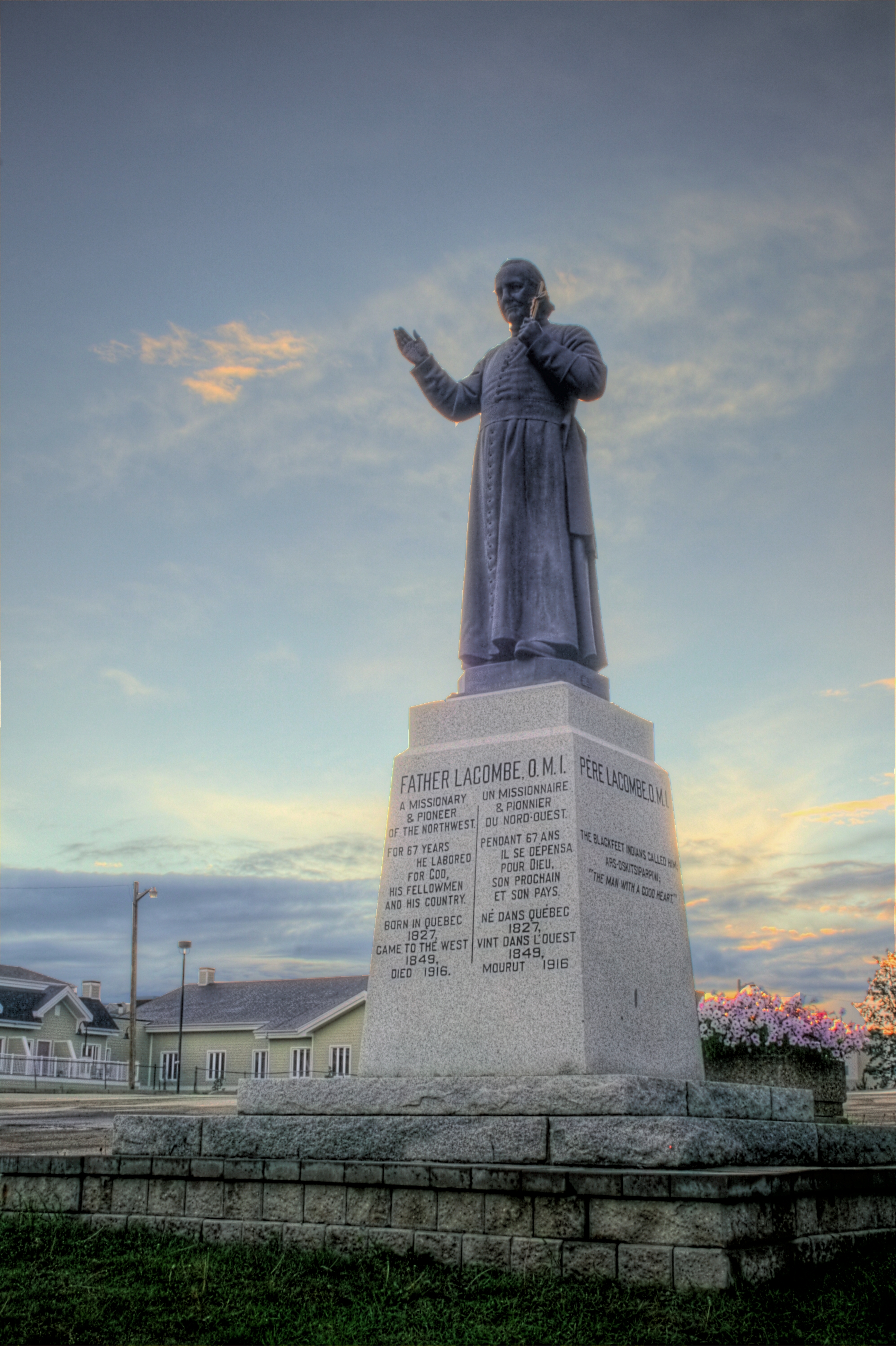 Statue of Pere (Father) Lacombe in St. Albert, Alberta, Canada.